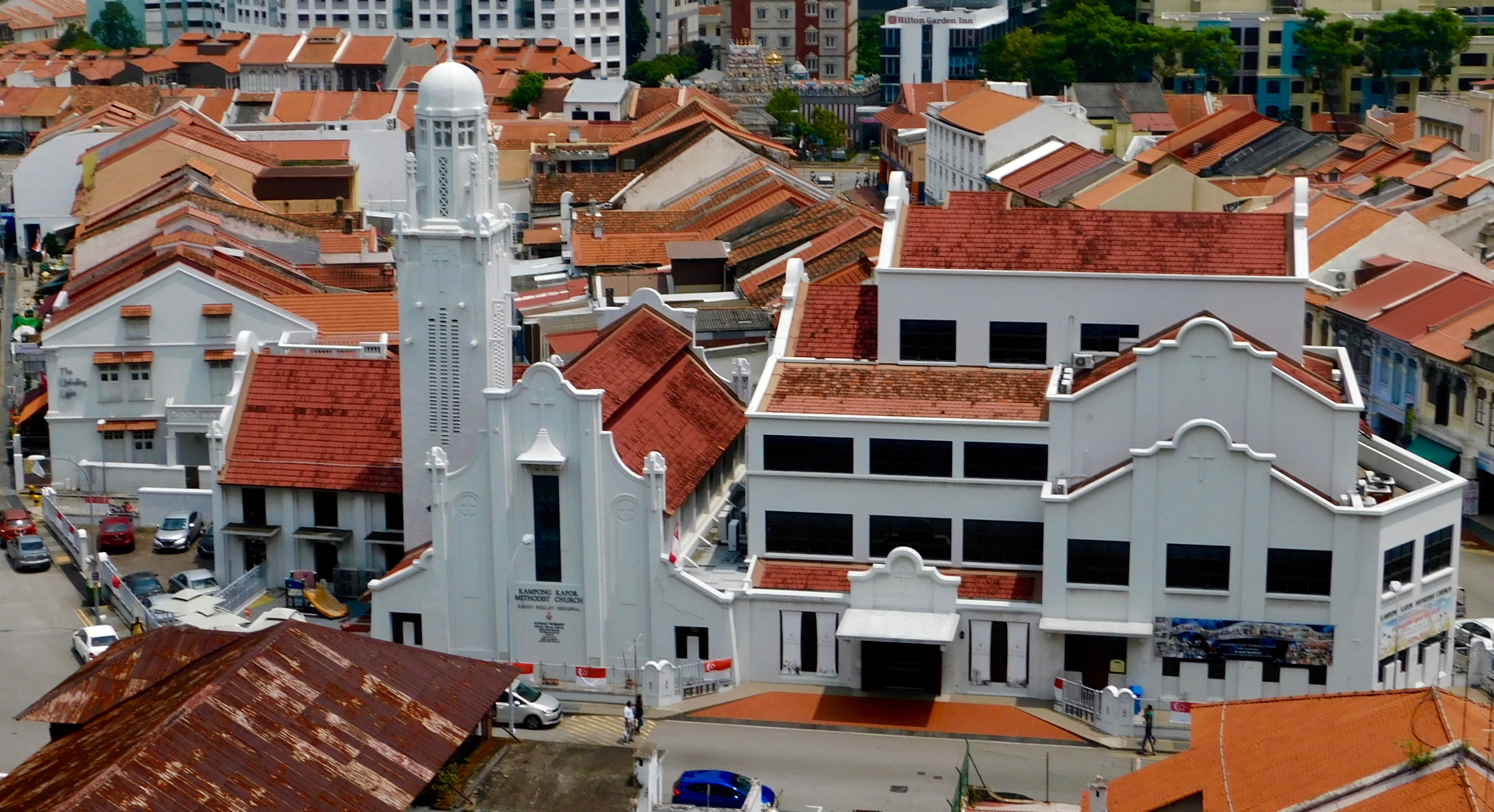 Kampong Kapor Methodist Church was founded in Singapore in 1894. It is a Methodist church located in the midst of Singapore’s Little India.